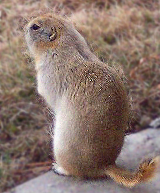 This photograph was taken by me, Tanner A Stika, in Grand Forks, ND on 10 April 2007.